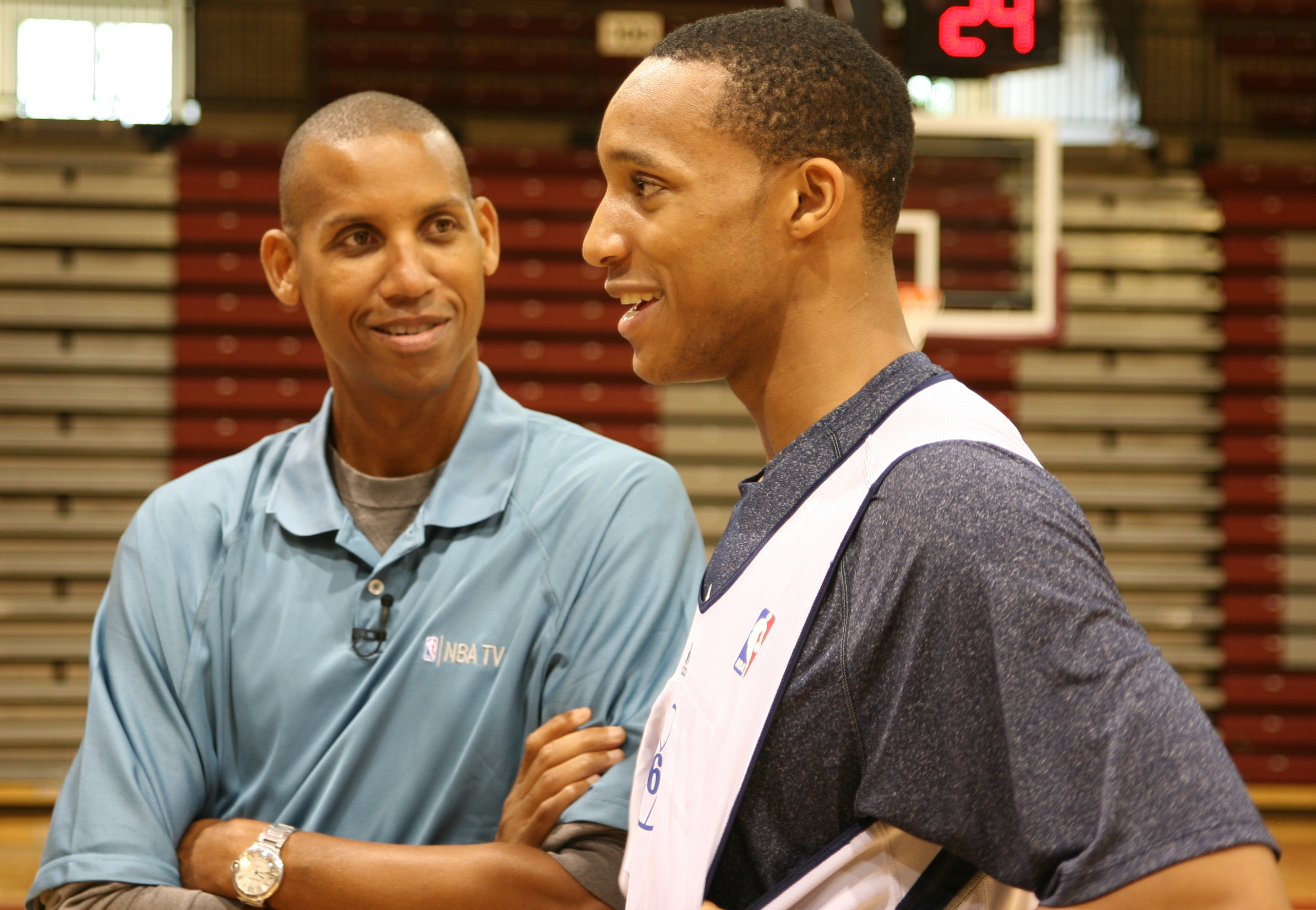 Reggie Miller and Evan Turner